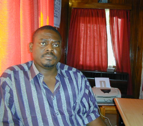 Johnny Paul Koroma, head of the Armed Forces Revolutionary Council in Sierra Leone